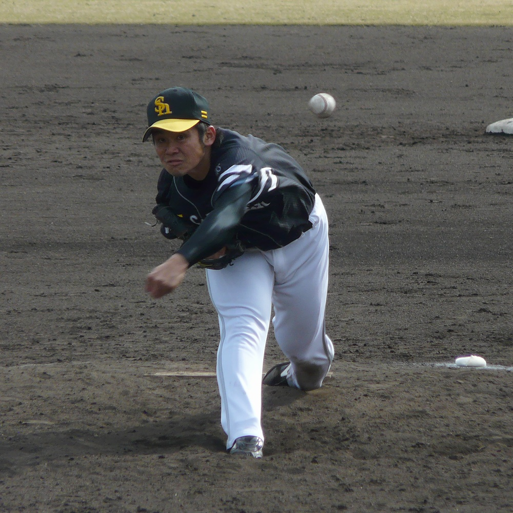 SH-Reo-Chikada20110318